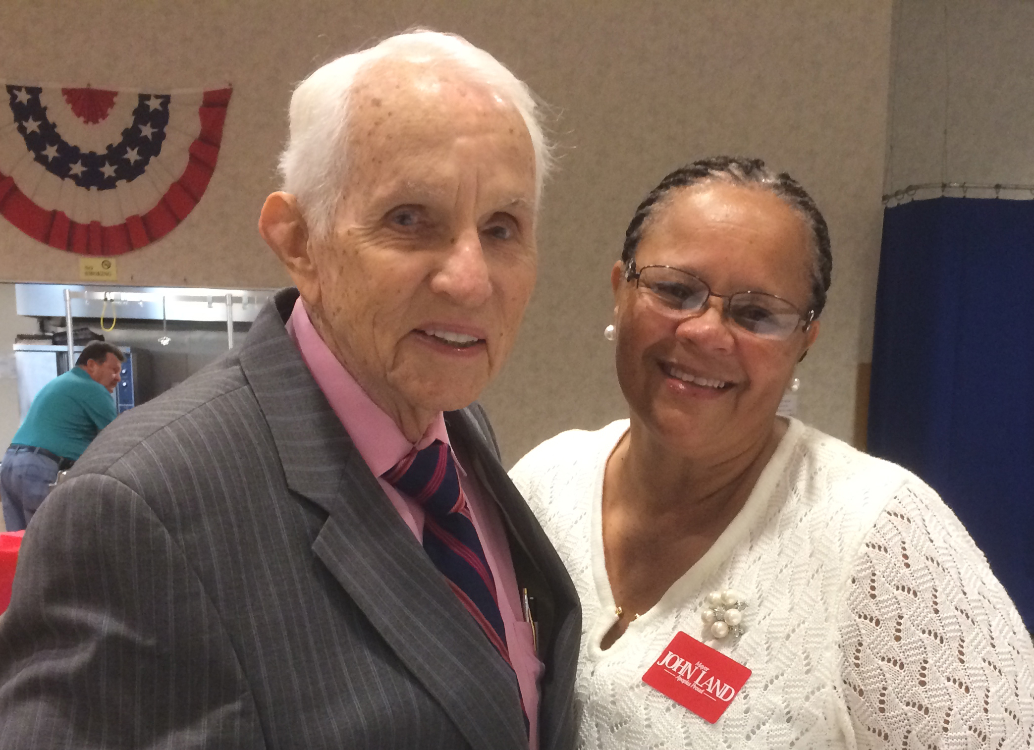 Mayor John Land 20th Campaign Kick-off 2014 with family friend and supporter Dora Norman.